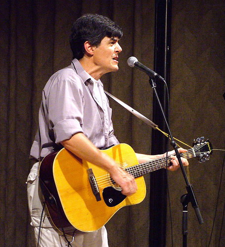 Jomo (Jean-Marc Leclercq) during the jubilee celebration of "La Verda Stelo", an Esperanto group in Antwerp, Belgium